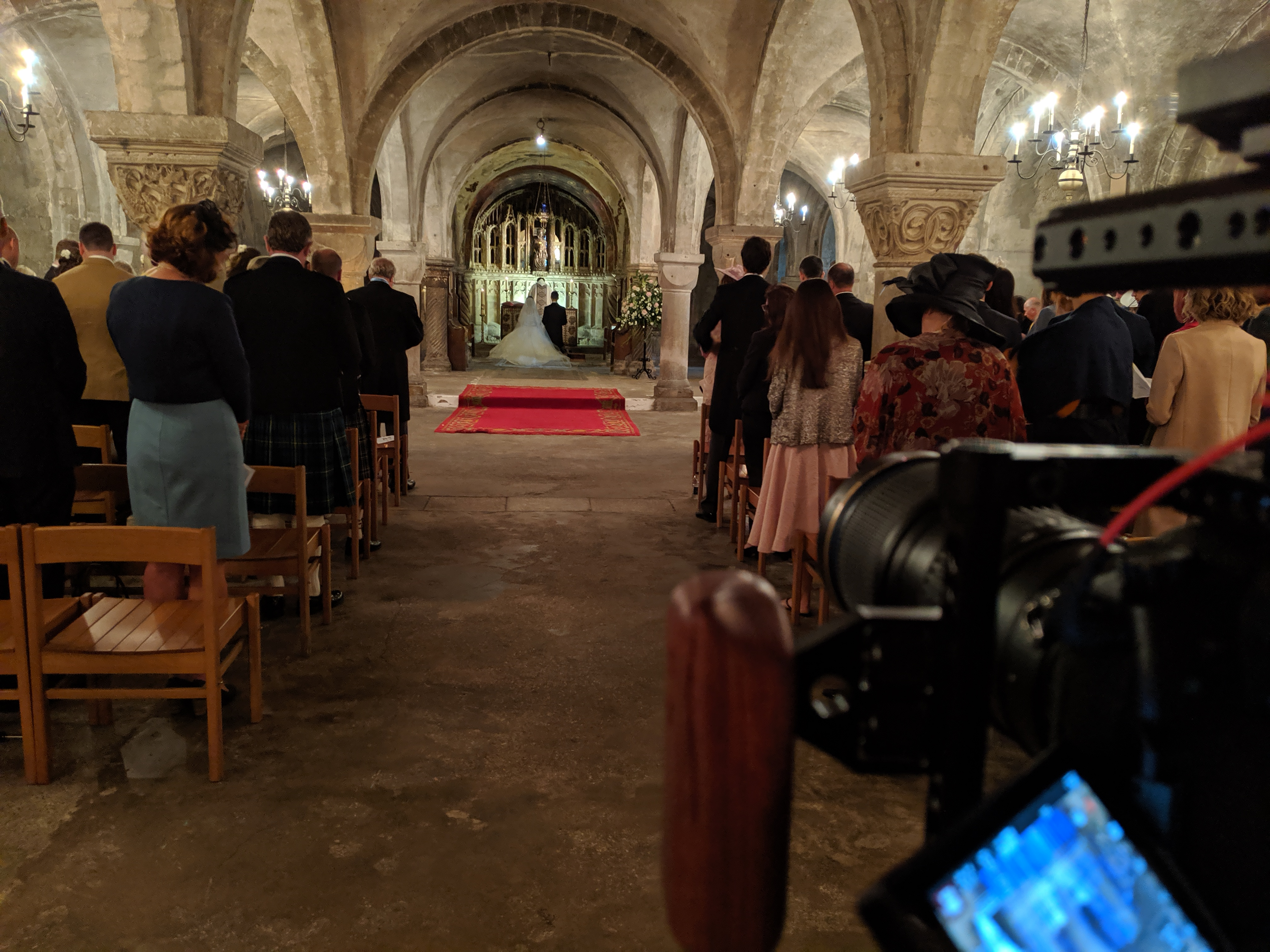 A Wedding Videographer Filming During The Service Of A Church Of England Ceremony At Canterbury Cathedral On A DSLR